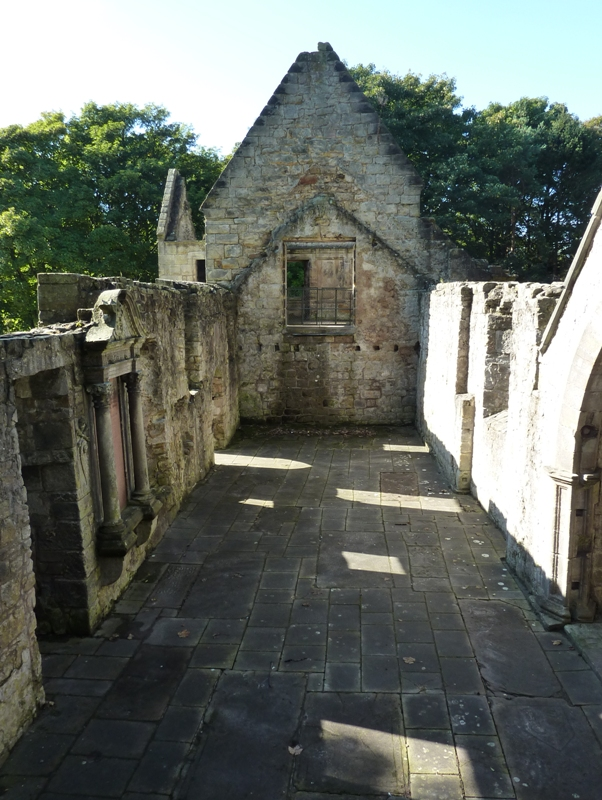 St Bridget's Kirk, Dalgety, Fife, Scotland. Interior, looking west.